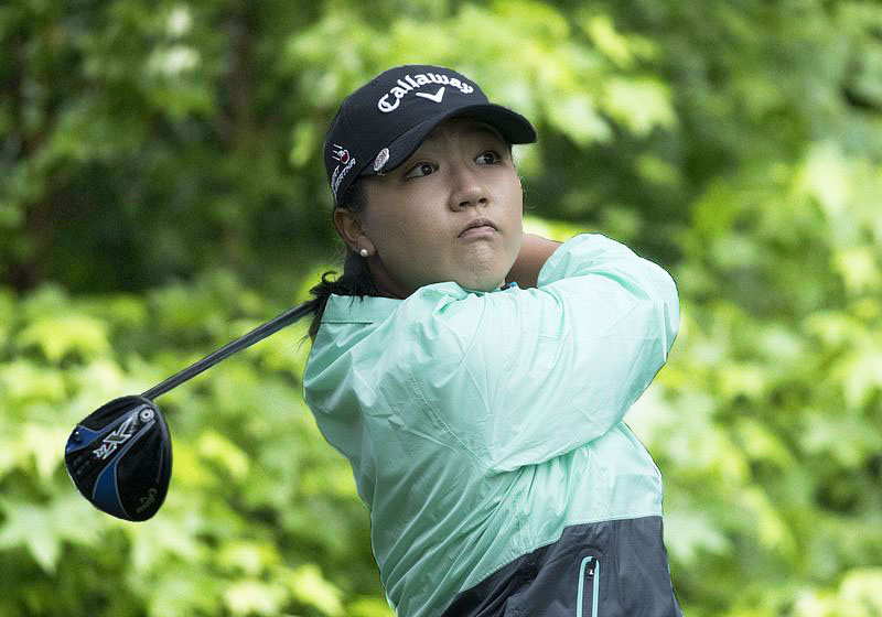 Lydia Ko at the LPGA Kingsmill 2016